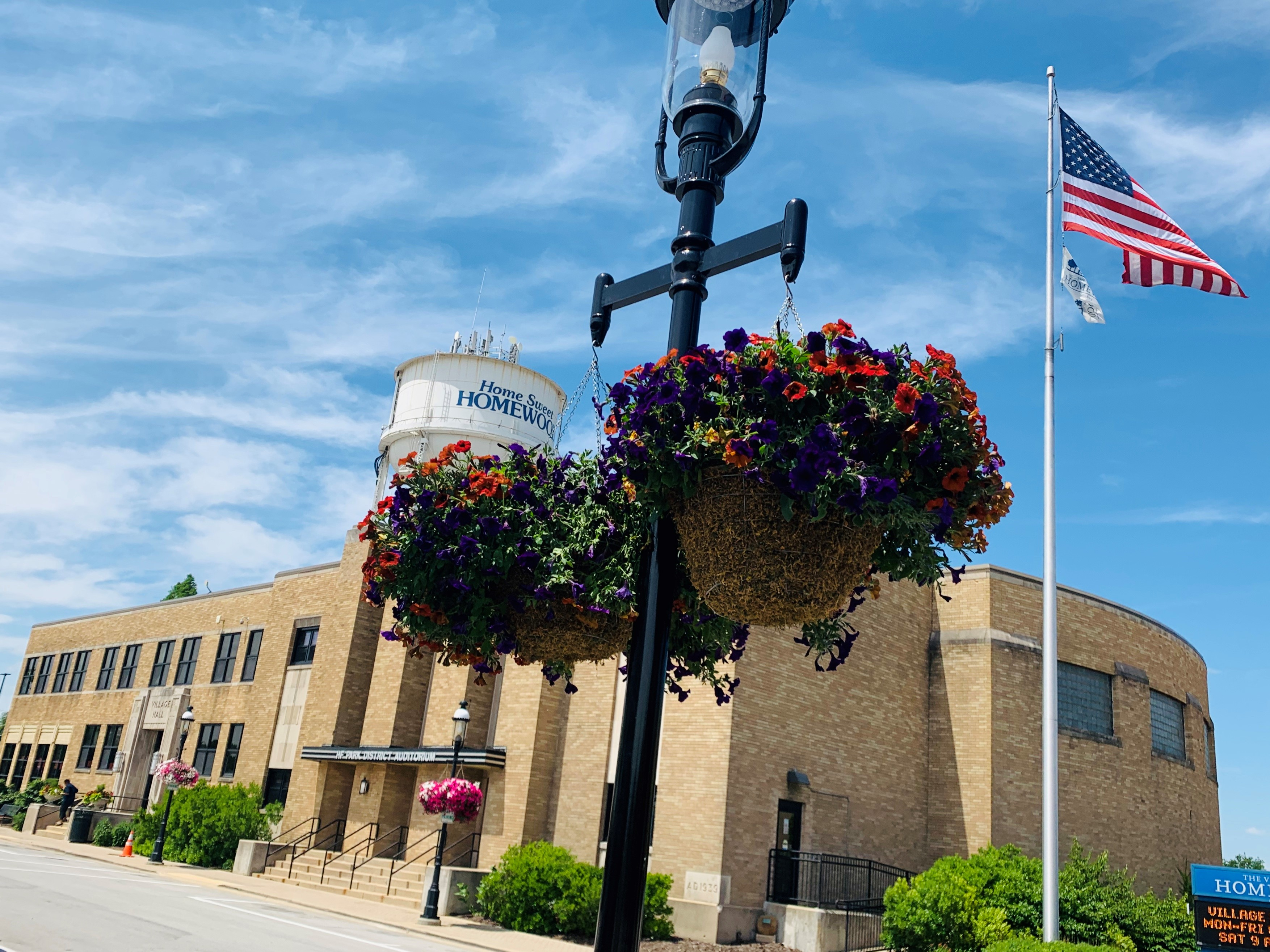 Villag of Homewood, IL. Village Hall 2019